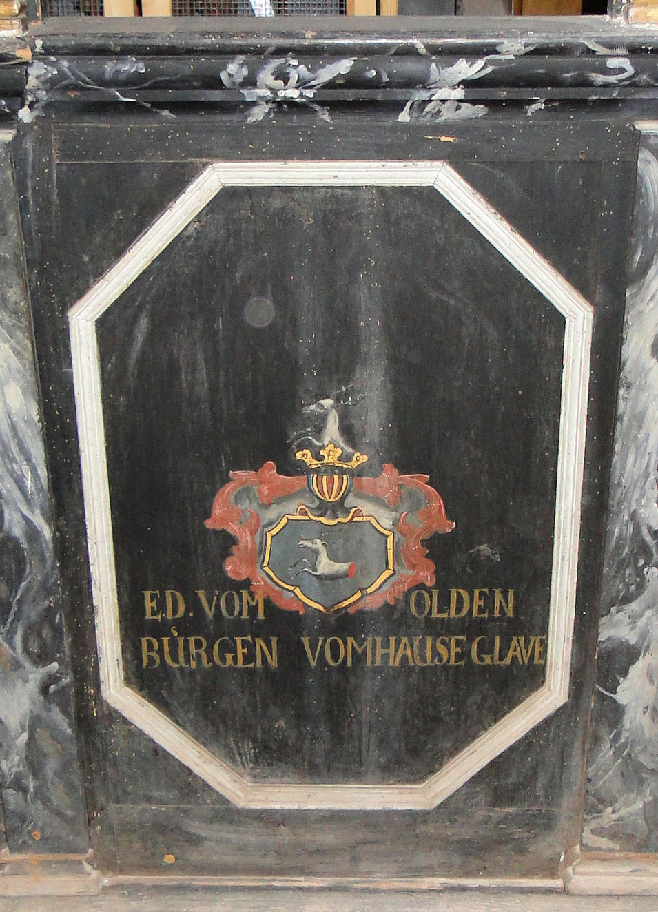 Interiors at nuns' matroneum at church in Monastery in Dobbertin, district Parchim, Mecklenburg-Vorpommern, Germany